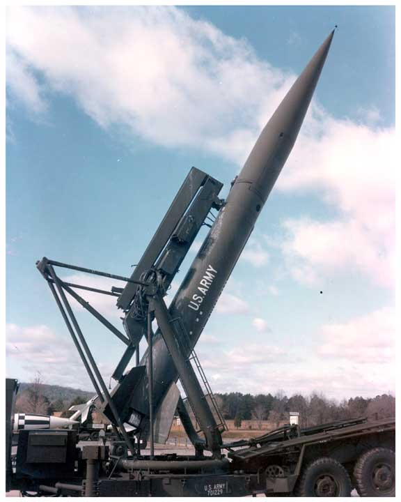 MGM-29 Sergeant before launch.